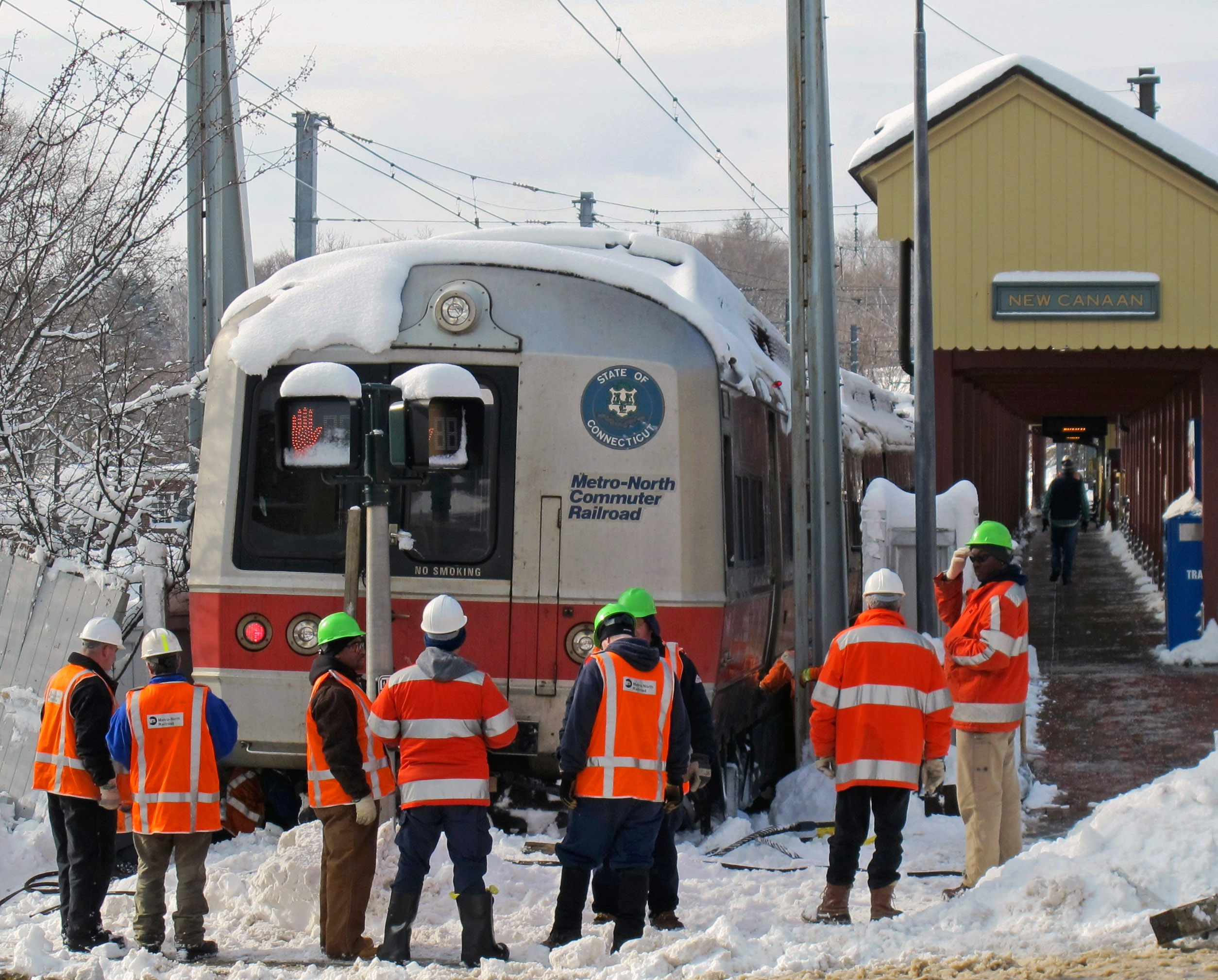 A Metro-North crew attends to a derailed New Haven Line train at the New Canaan station, terminus of the New Canaan BranchNew Canaan, CT, USA, following the January 25–27, 2011 North American blizzard